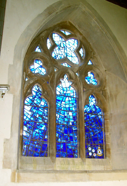 Kirmington - Aircrew Memorial Window